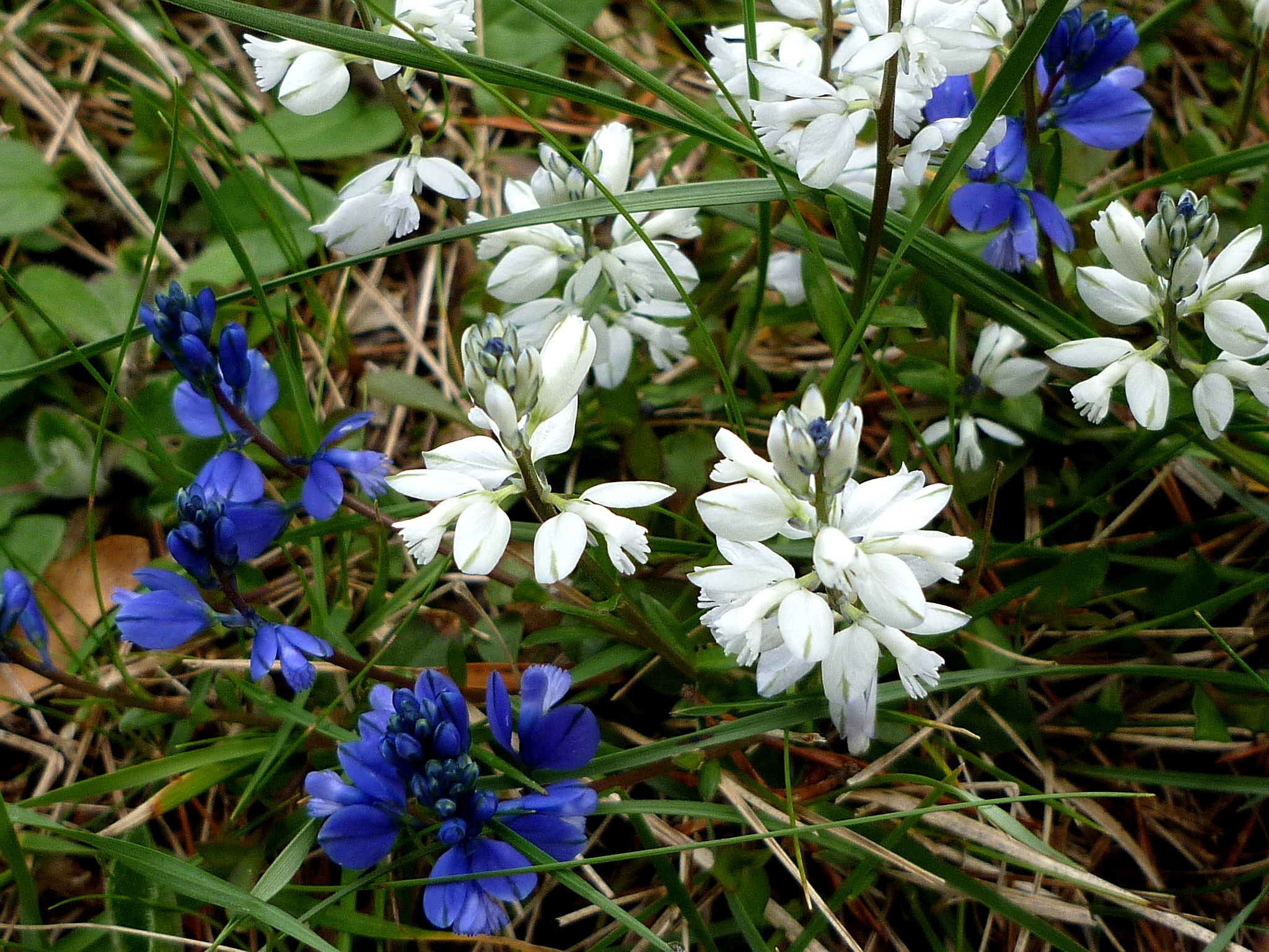 Polygala calcarea. In Castellar del Riu (Berguedà-Catalunya). To 1.140 m. altitude